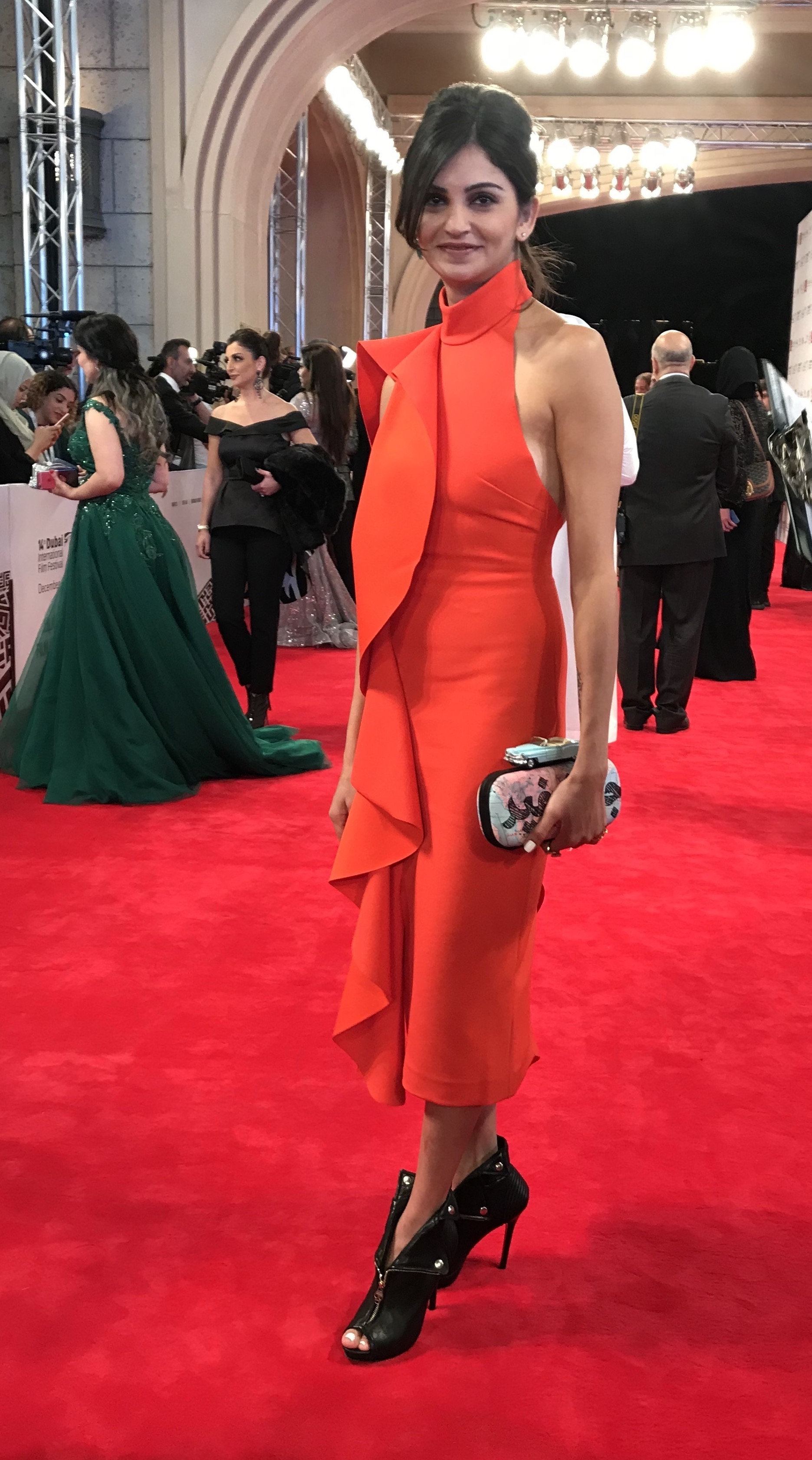 Ahd Kamel on the red carpet of the 2017 Dubai International Film Festival